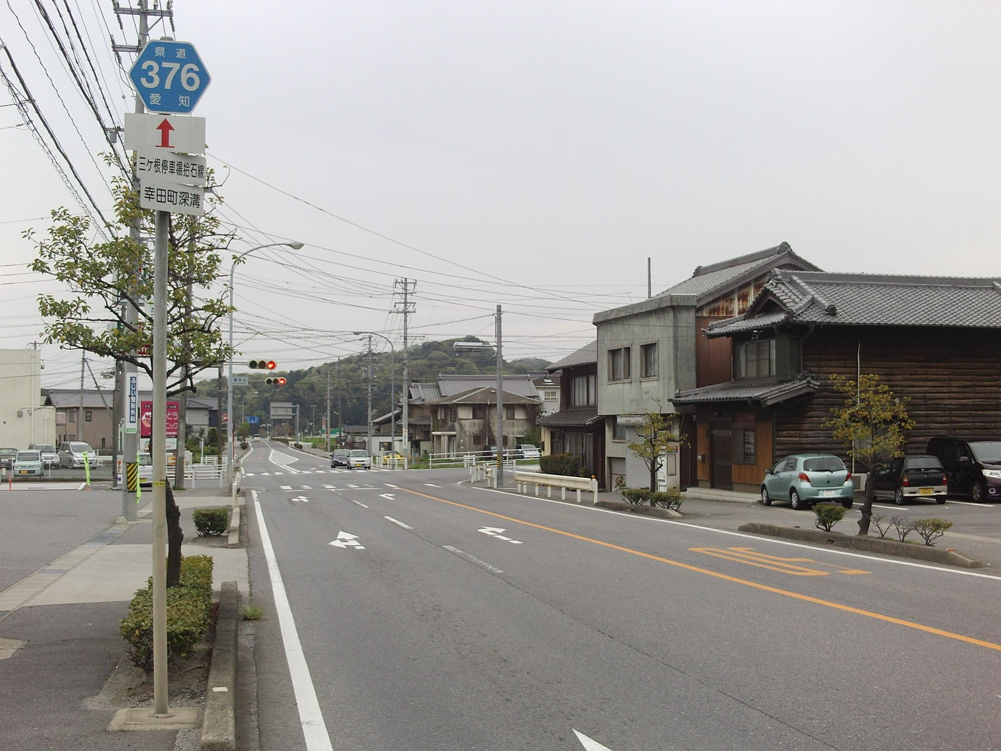 Aichi prefectural road No.376 in Fukozu, Kota-cho, Nikata-gun, Aichi.